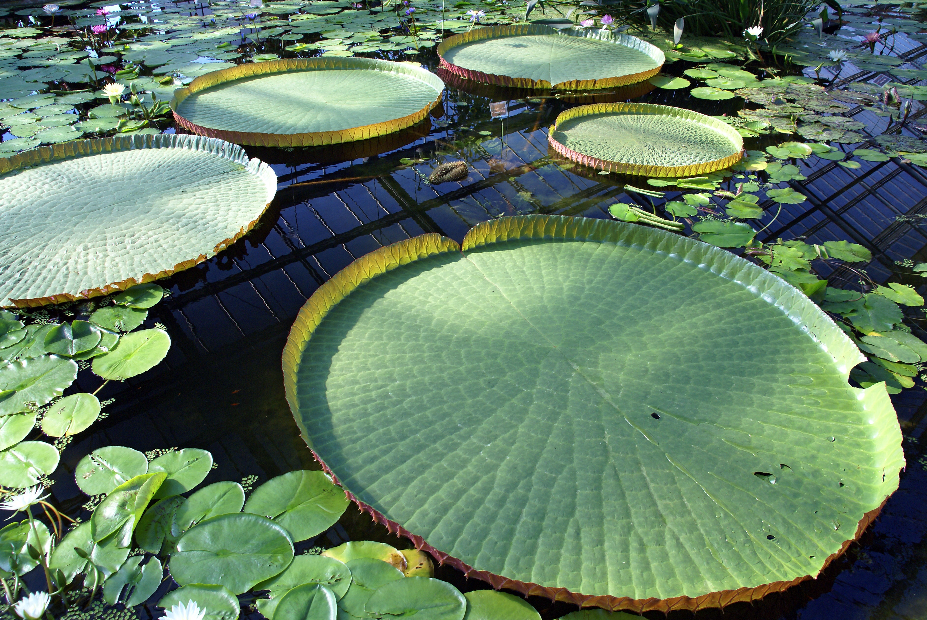 Nelumbo nucifera and Victoria amazonica Kobe Kachoen (Kobe Flowers and Birds Garden) in Kobe, Hyogo prefecture, Japan.